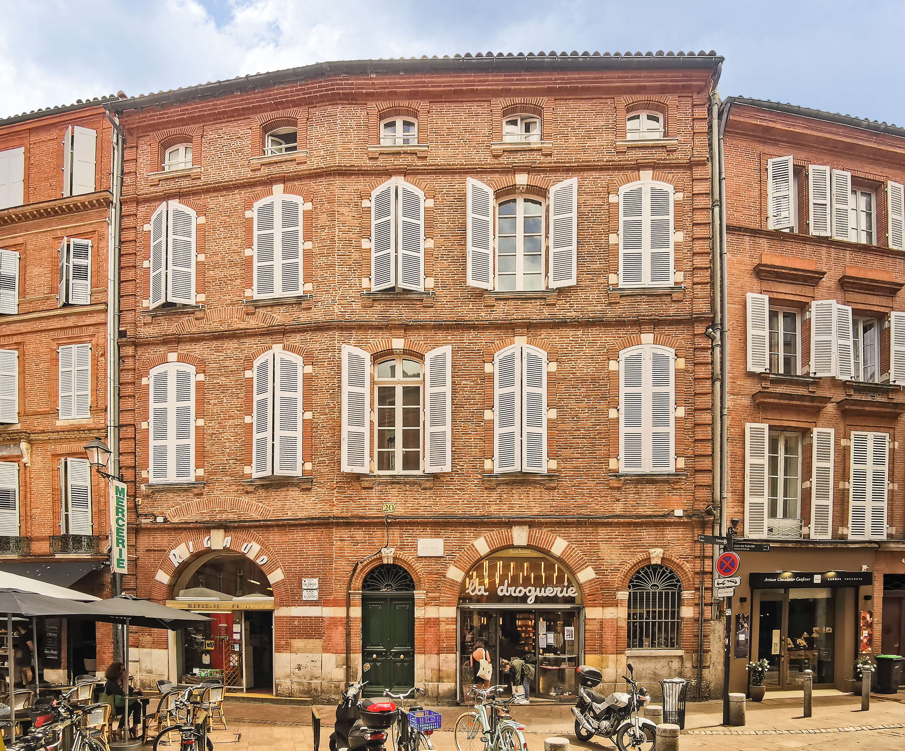 Darbou Hotel. No 20 classic 17th century building Rue des Puits-Clos in Toulouse. Residence in Toulouse of Jean Jaurès from 1889 to 1892.